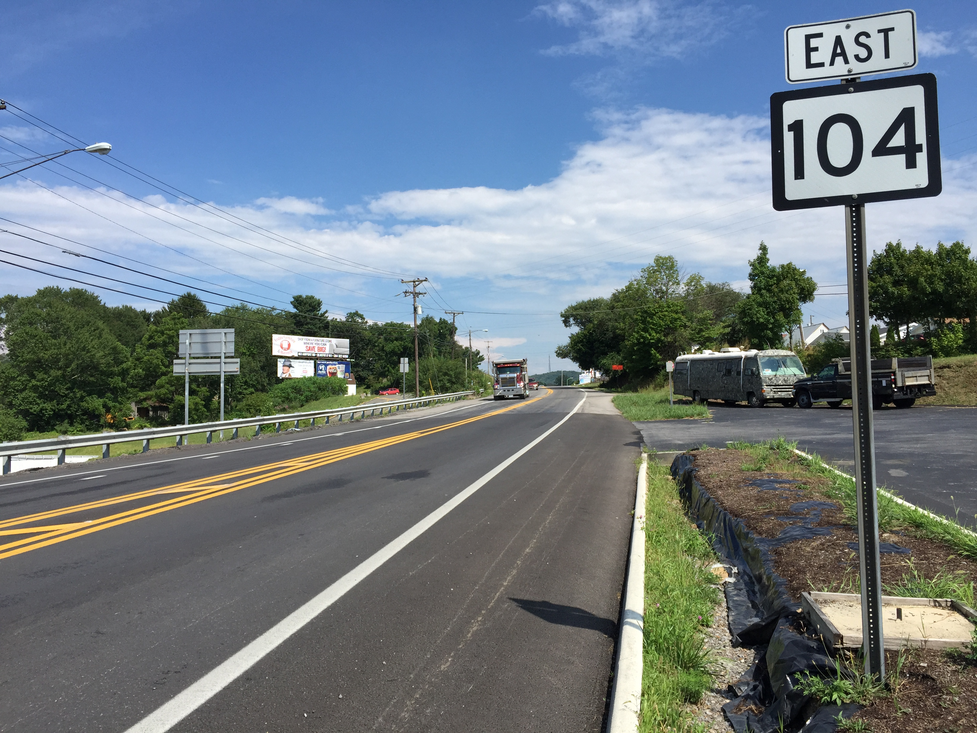 View east along West Virginia State Route 104 (Oakville Road) at West Virginia State Route 20 (Rogers Street) in Princeton, Mercer County, West Virginia